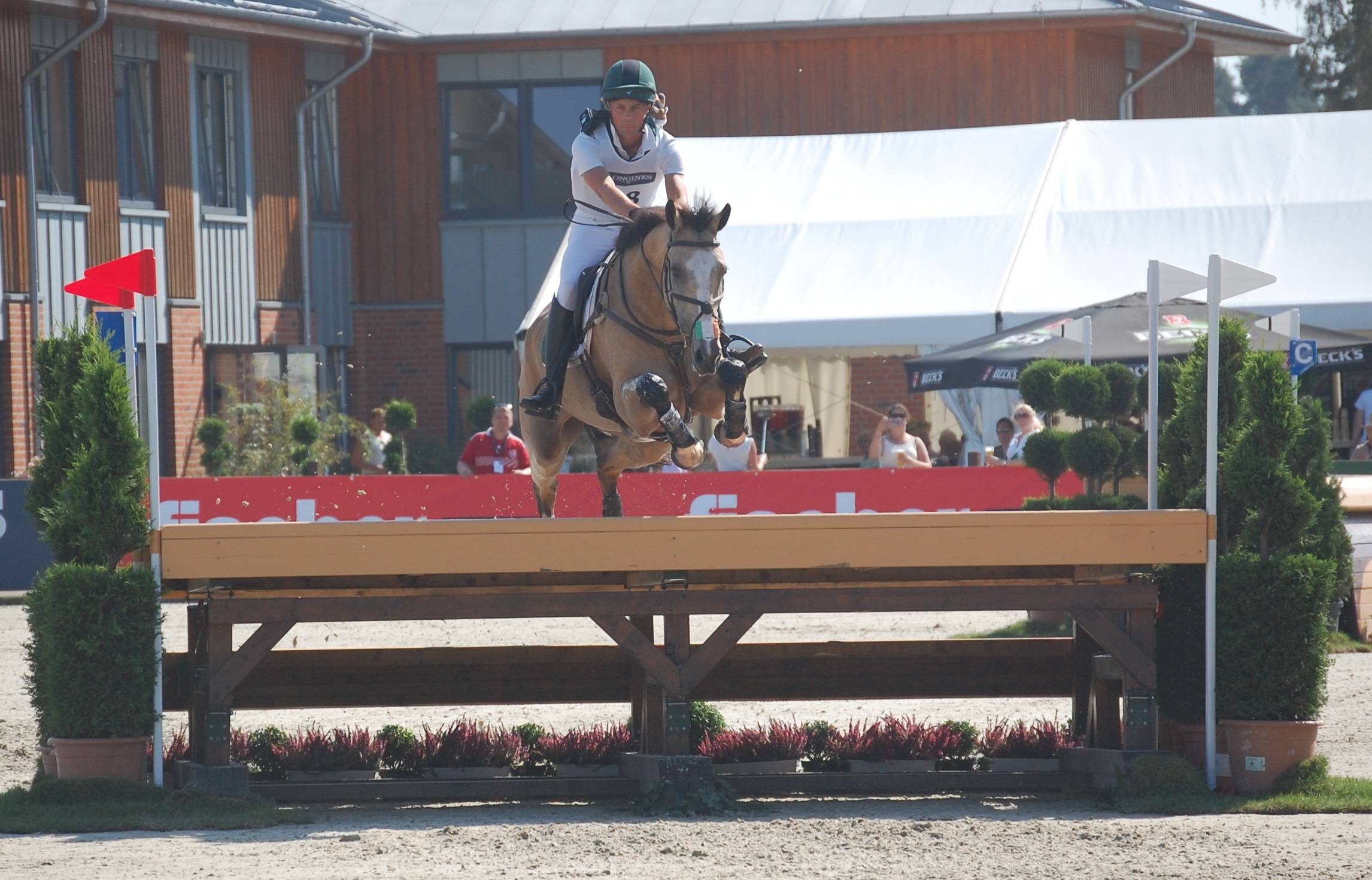 Irish rider Sam Watson and Tullabeg Flamenco, fence 7 "The Manzke table" (cross-country phase), 2019 European Eventing Championship, Luhmühlen